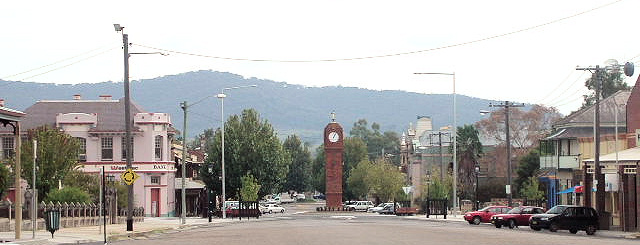 View of Mudgee, NSW showing the War Memorial Clock Tower of a Sunday morning when things had not yet got moving.